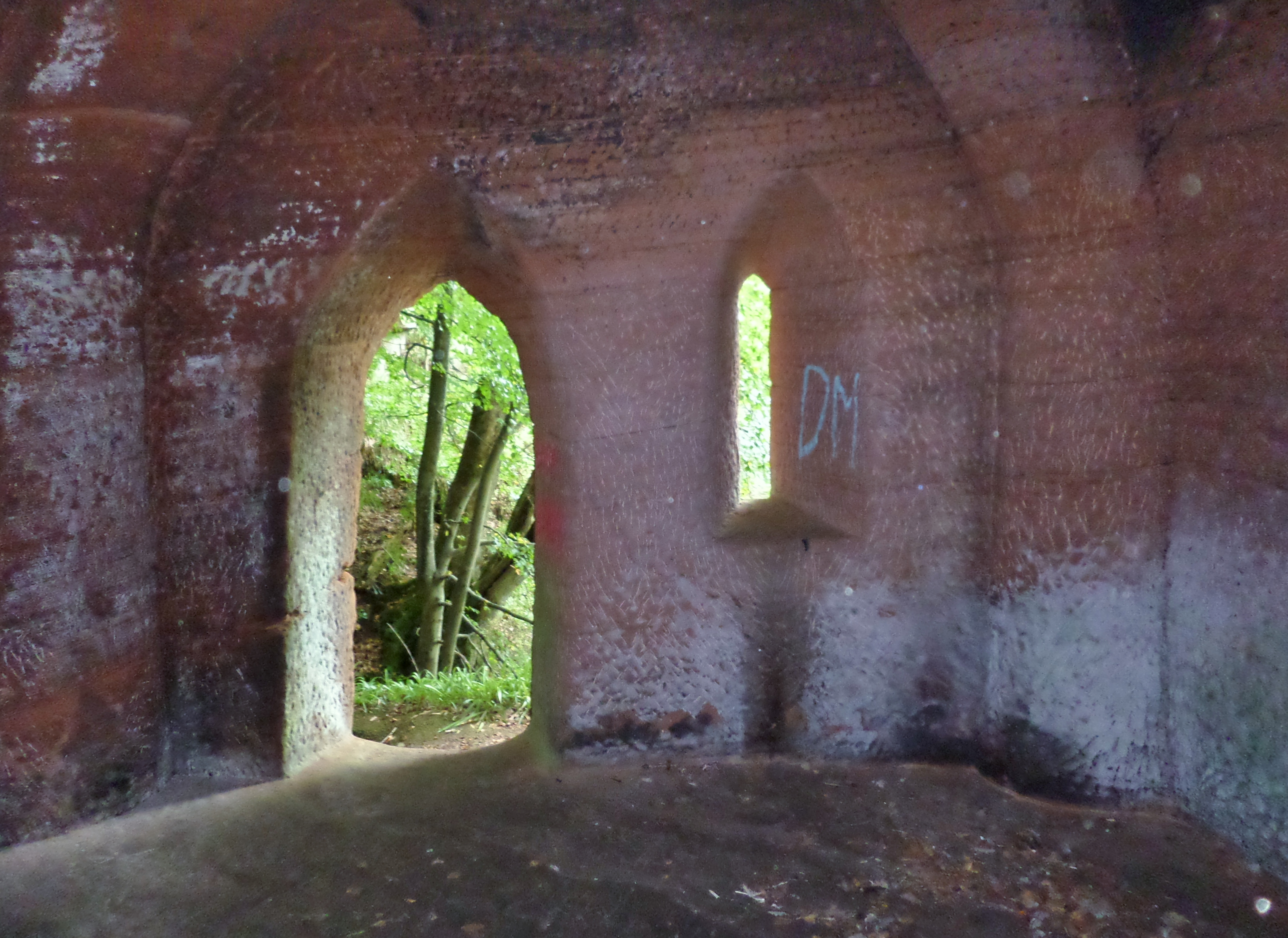 Wallace's Cave carved door, window and wall rib view, Lugar Gorge, Auchinleck, East Ayrshire. An 18th century grotto.